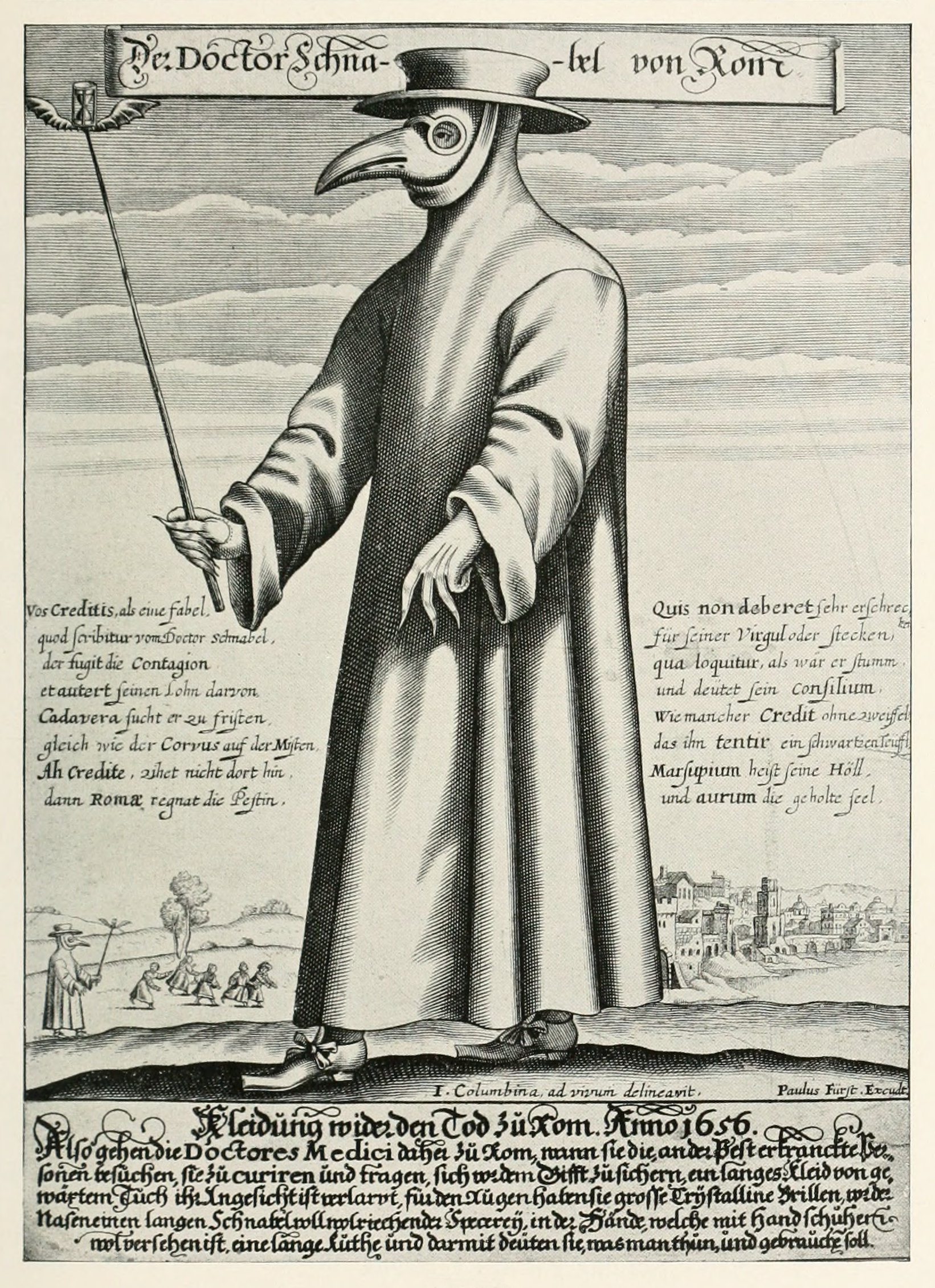 Description: Copper engraving of Doctor Schnabel [i.e Dr. Beak], a plague doctor in seventeenth-century Rome, with a satirical macaronic poem (‘Vos Creditis, als eine Fabel, / quod scribitur vom Doctor Schnabel’) in octosyllabic rhyming couplets.